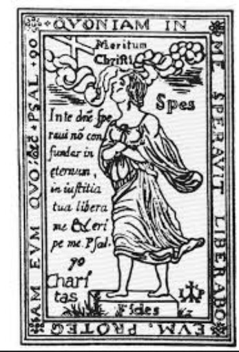 Imprint used by the Flemish printer Jacob Bathen in Leuven